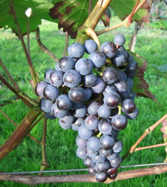 Dornfelder grape varieties